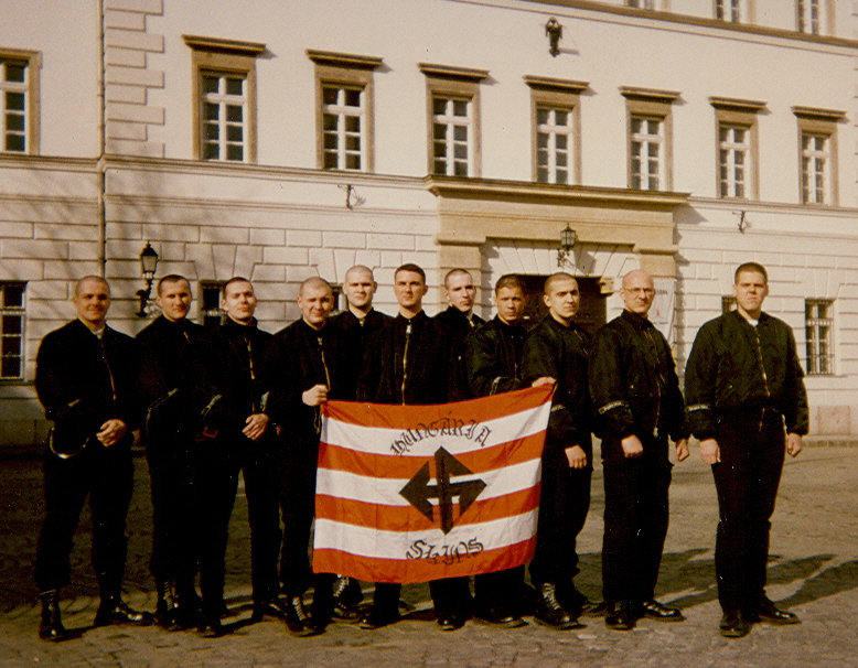 The "Hungaria Skins" group on the 1997 Day of Honour demonstration, Budapest, Hungary